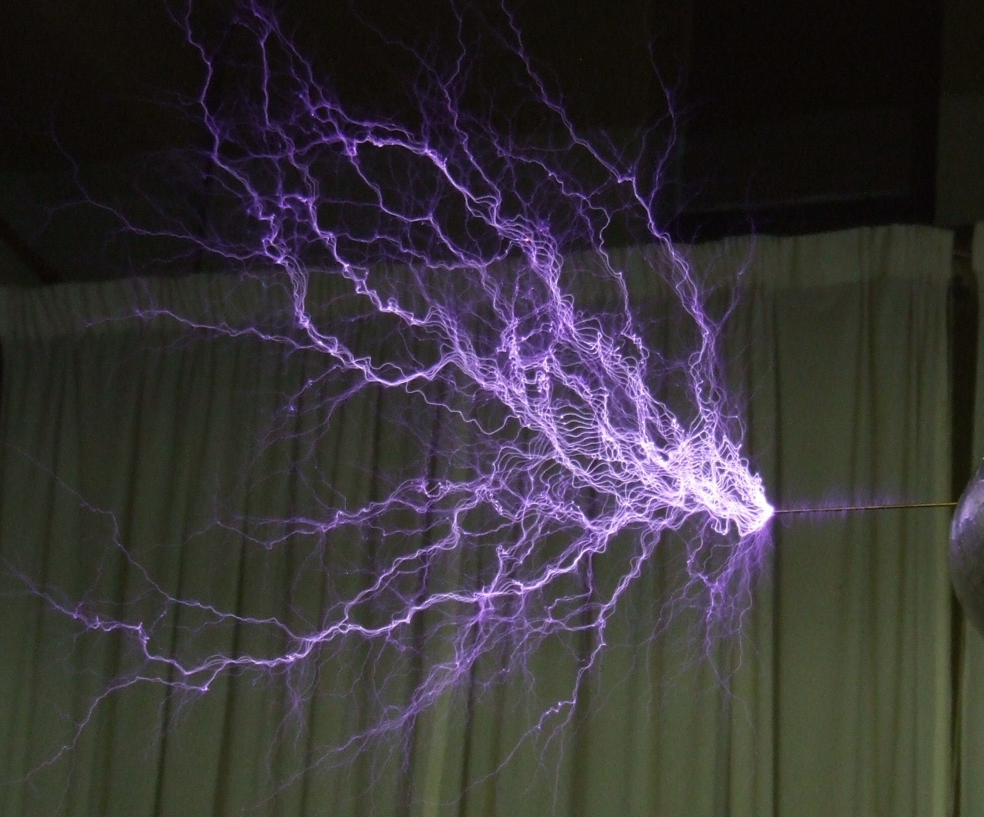 Electric discharge showing the lightning-like plasma filaments from a Tesla coil. Click image for detailed view.